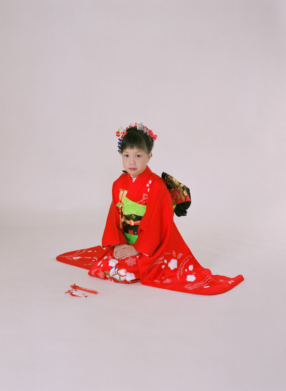 to liyin She is my daughter. I took in her for her 7 years old celebration. This is when she wore the kimono. This type of clothes are of the girl traditional of Japan.